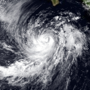 Image of Hurricane Gil of the 1983 Pacific hurricane season on 27 July 1983